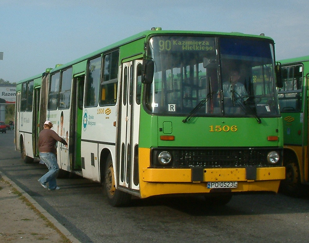 Ikarus 280.26 bus (#1506) in Poznań, Poland. Built 1985. MPK Poznań operator.